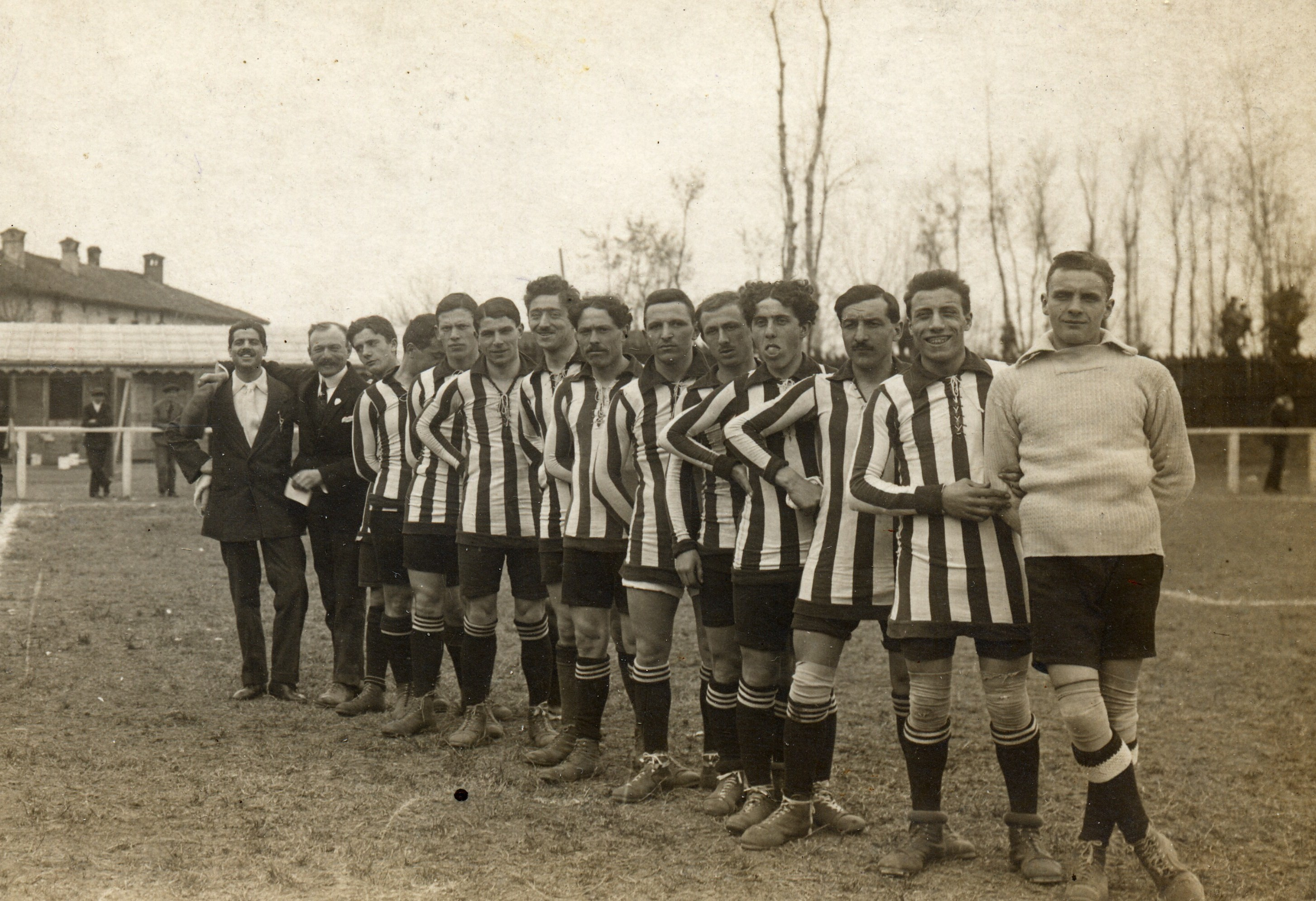 Italian football team Atalanta in season 1913-14